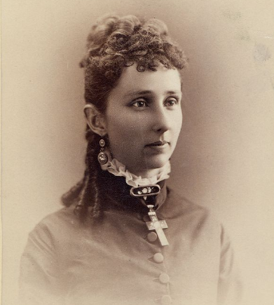 Mary Rippon before 1923 obvs